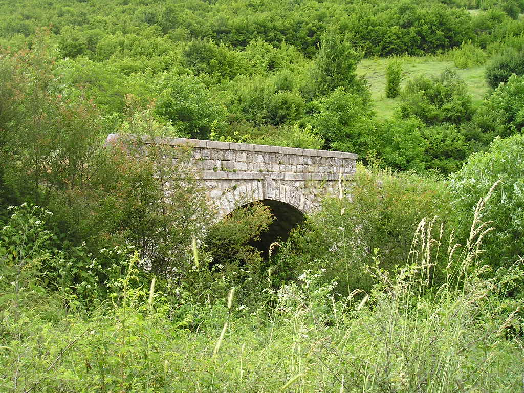 Stone bridge near village Vurbovo, Vidin district, Bulgaria